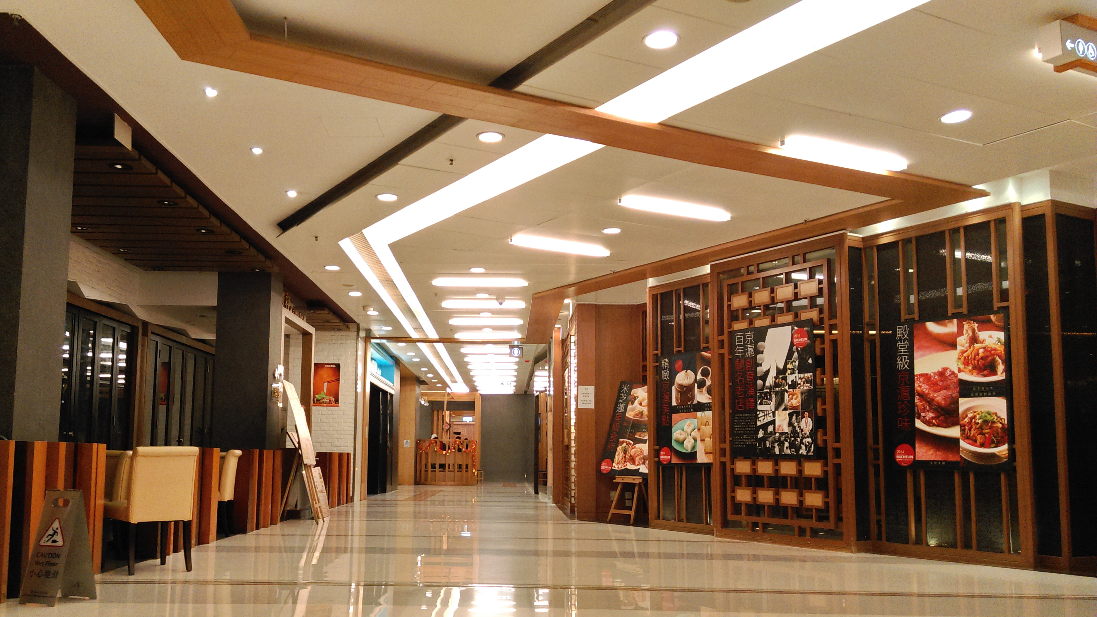 Luk Yeung Galleria, Level 2, Tsuen Wan, Hong Kong.